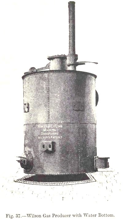 Wilson coal gas producer picture, water botton type to provide à gasproof way of removing the ashes